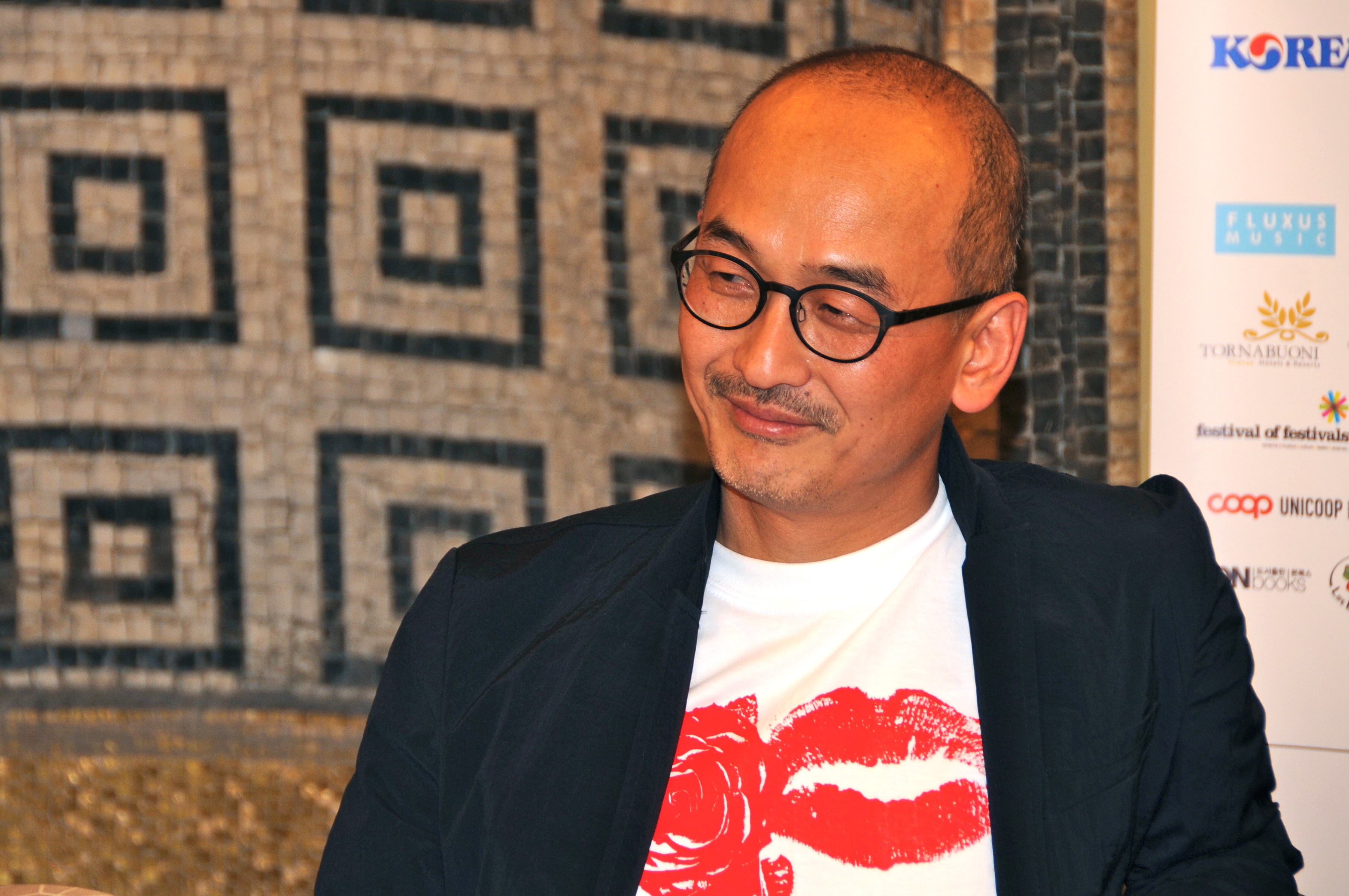 Lee Jun-ik at a film festival held in Italy, 2012.